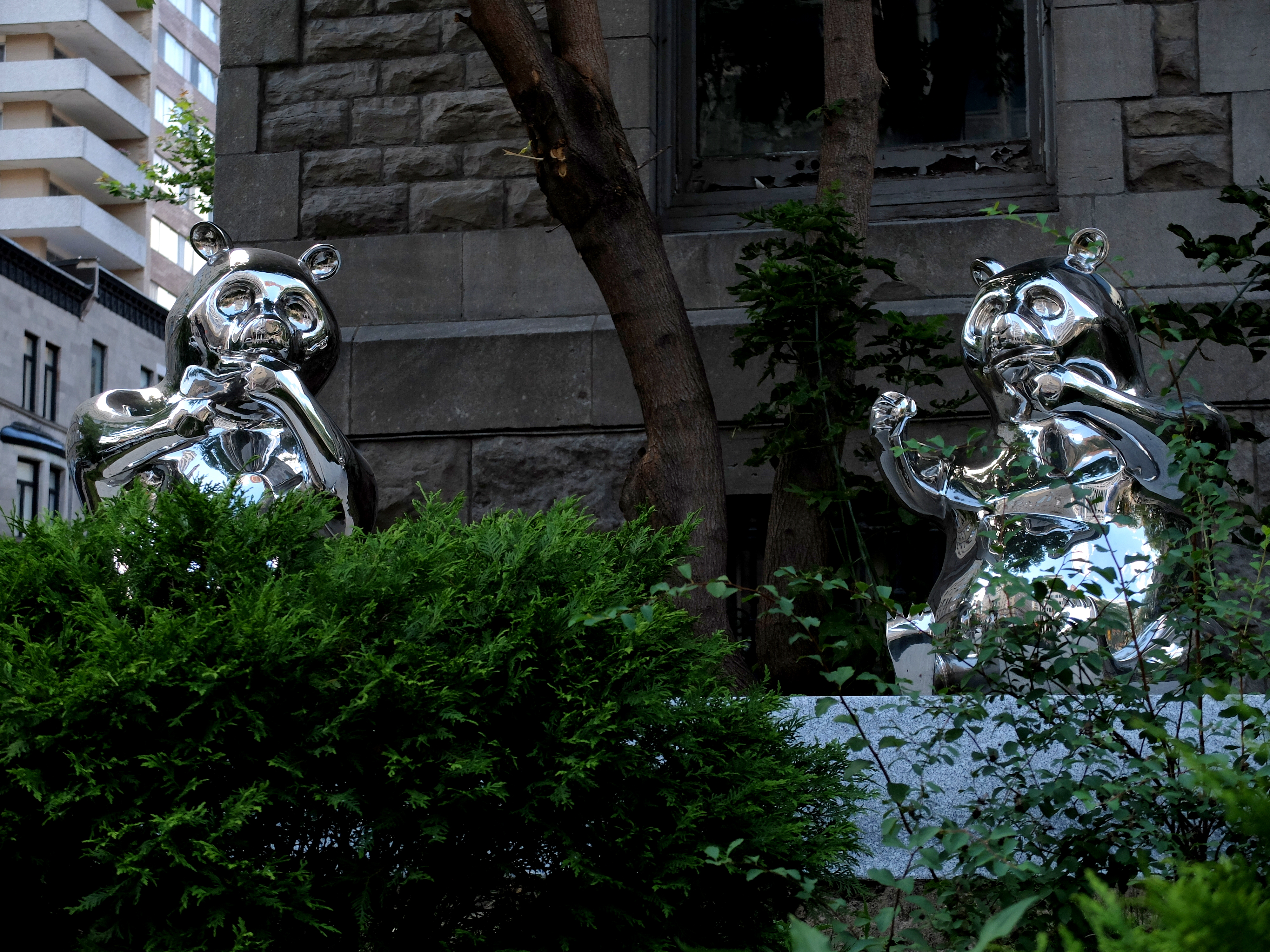 Reduced version of 'Panda bears - He he, xie xie', in Montréal, Sherbrooke street.